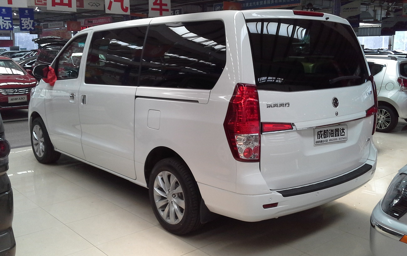 Dongfeng Fengxing CM7 photographed in Chengdu, Sichuan province, China.